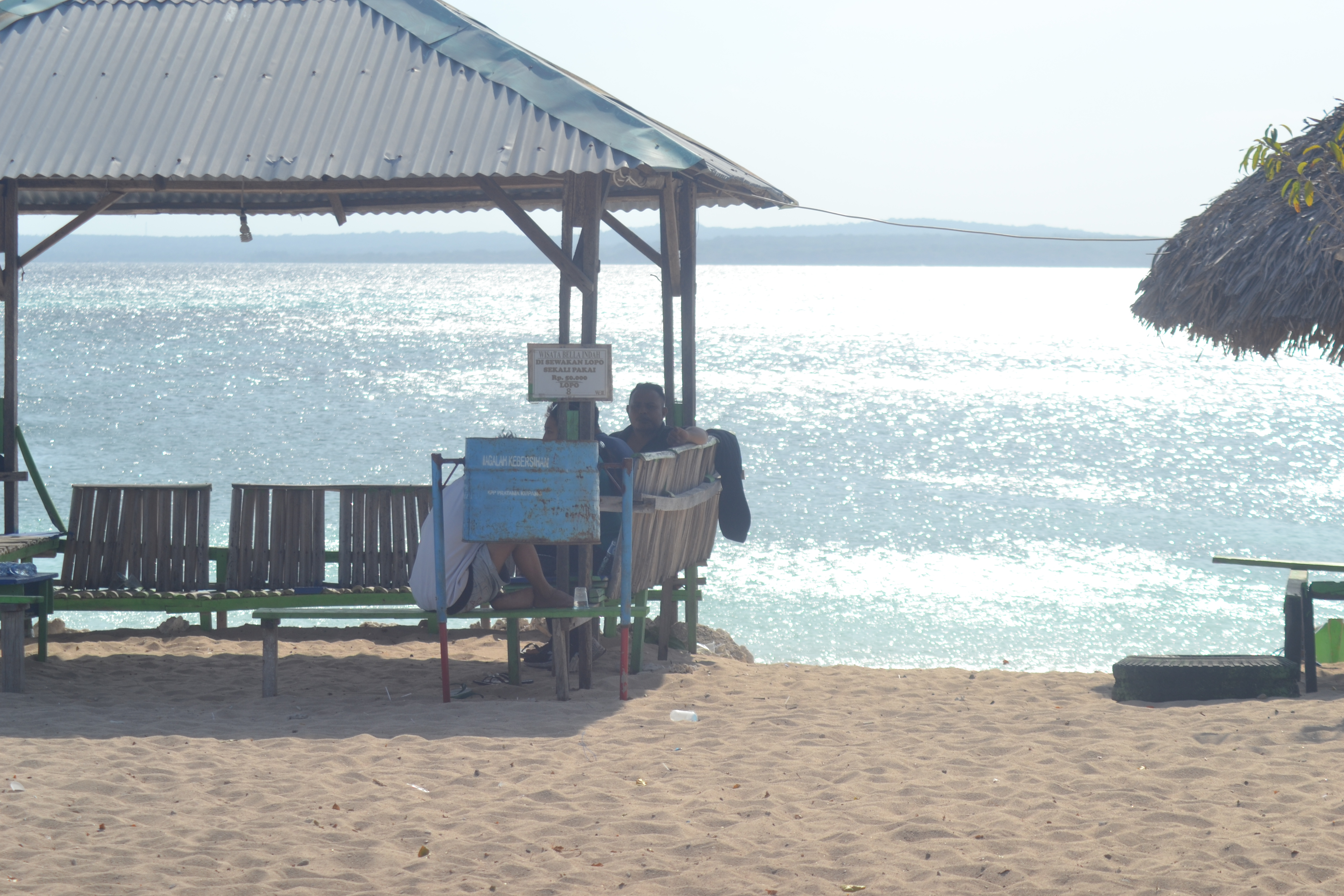 Pantai Tablolong: salah satu objek wisata yang terletak di Kabupaten Kupan, NTT